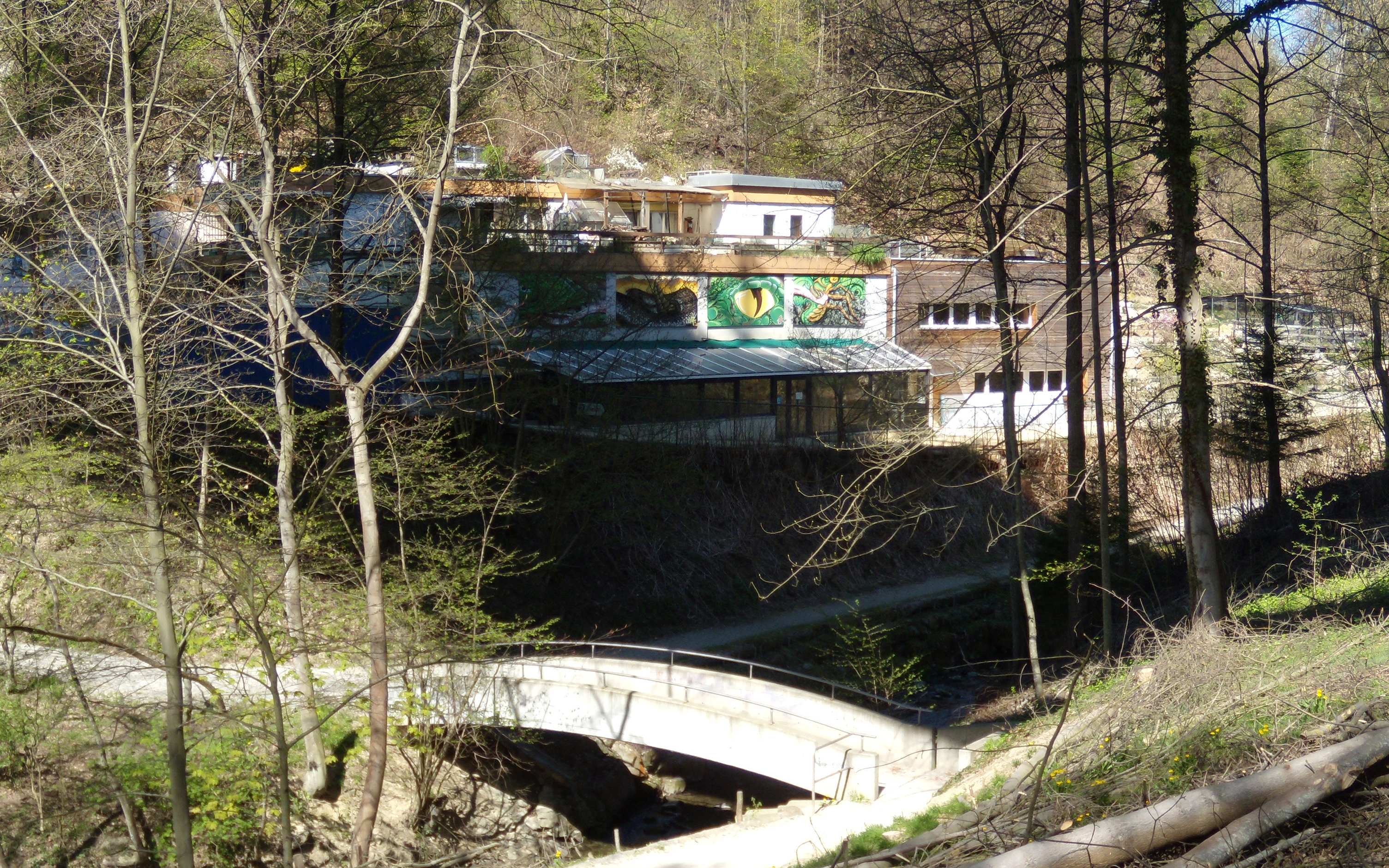 Vivarium of Lausanne, Switzerland